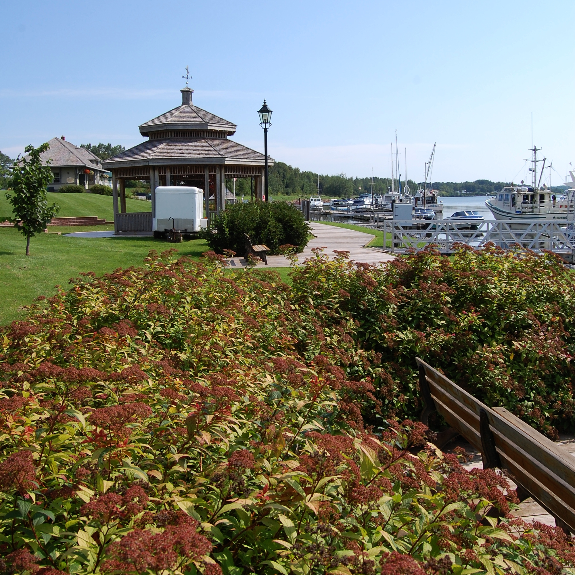 Riverfront park in Montague, Prince Edward Island. The old train station is on the left, a marina on the right.